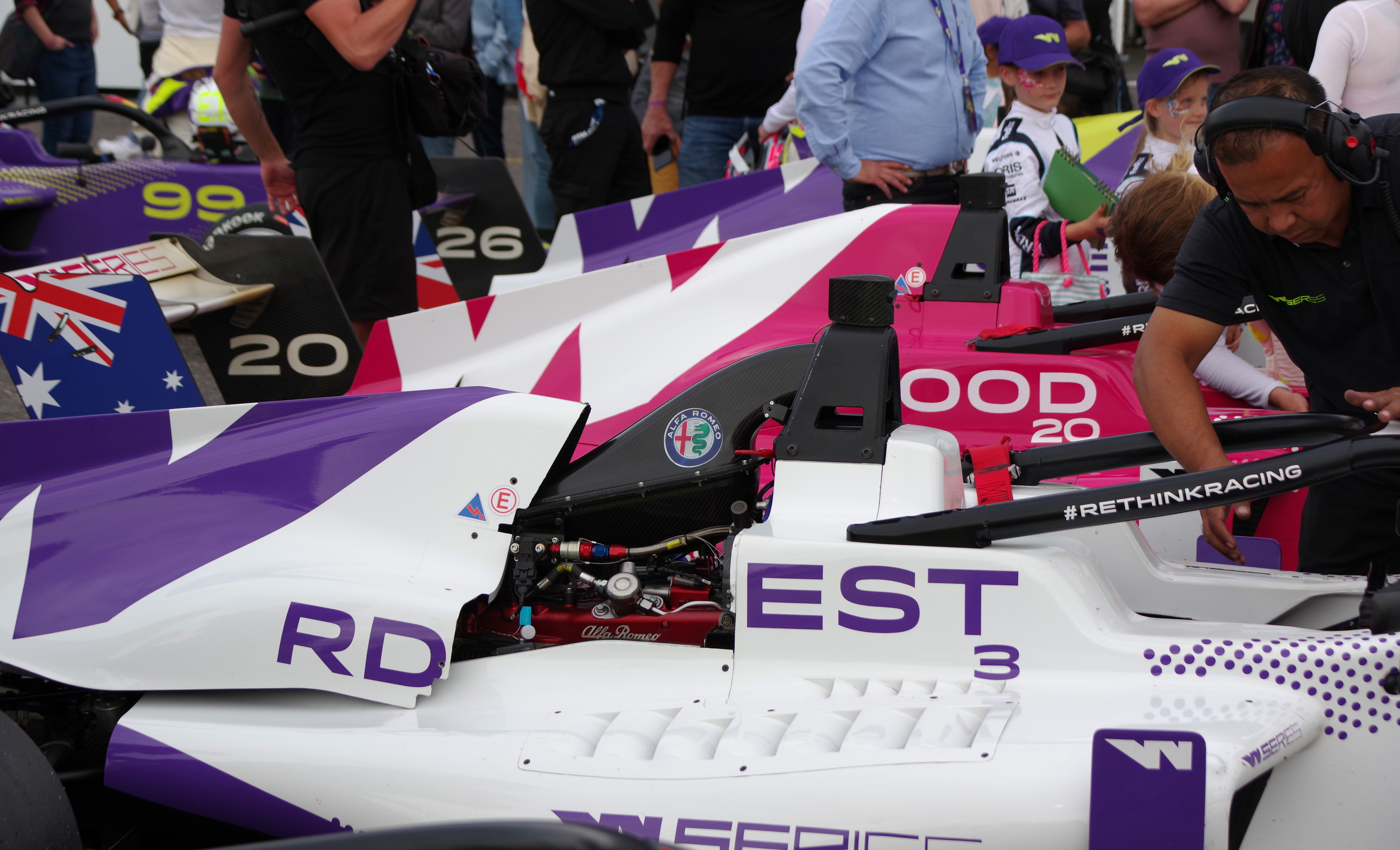 W Series Tatuus Formula 3 cars in the paddock at Brands Hatch.